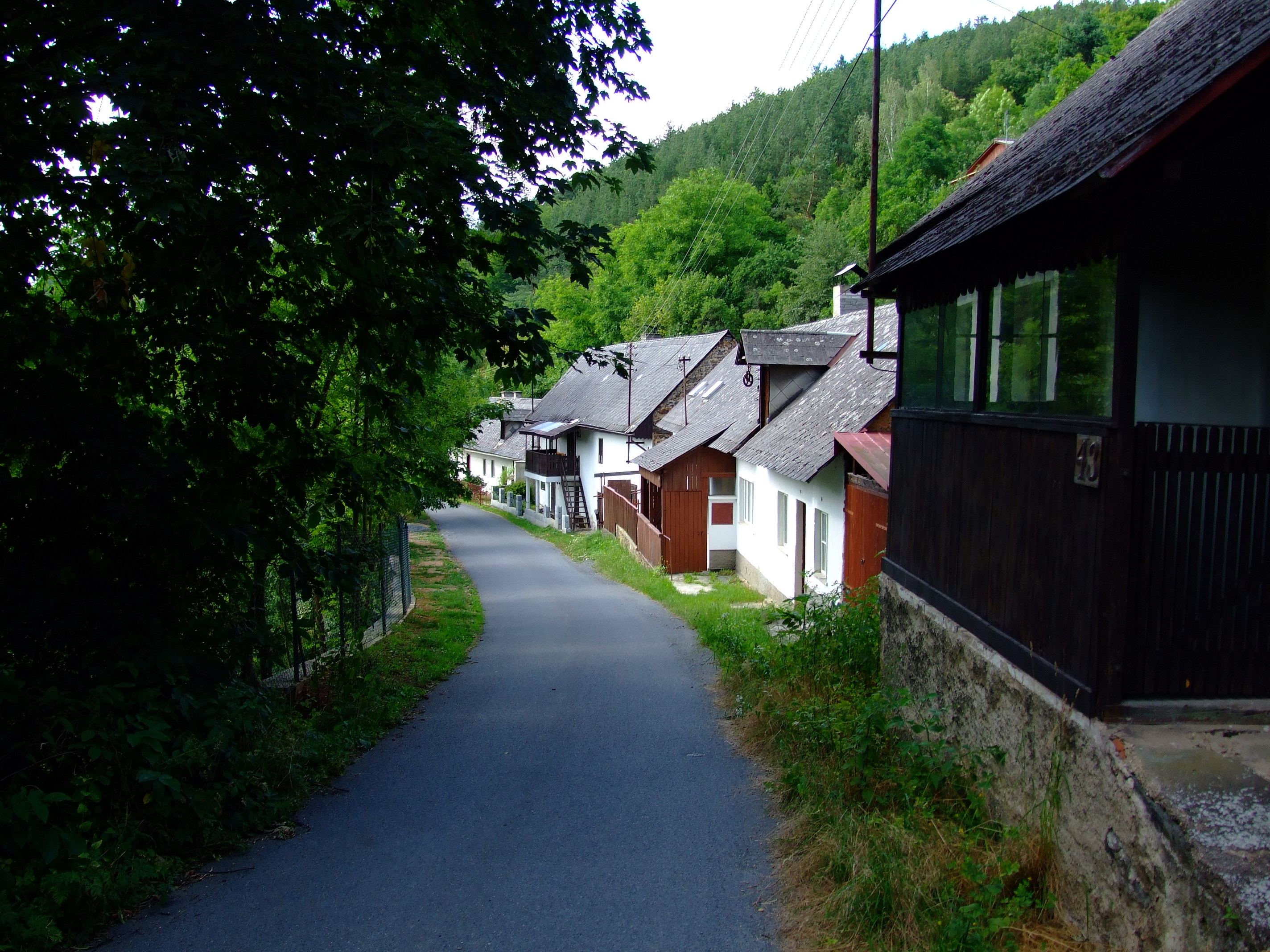 Sýkořice village near Berounka river, Central Bohemian region, CZhelp